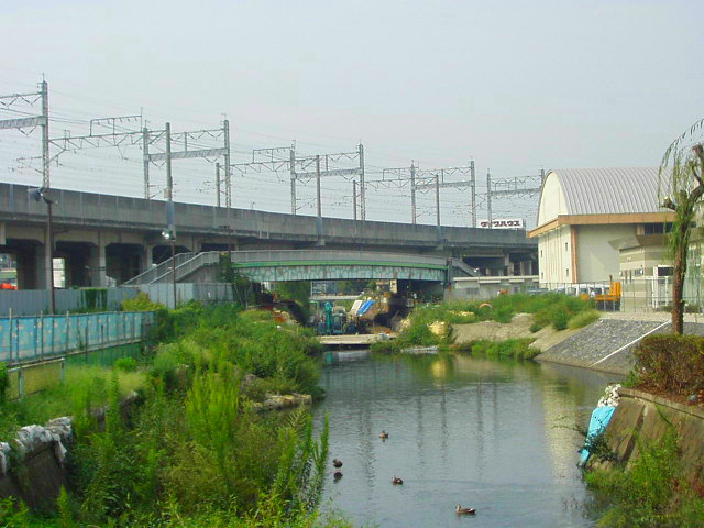 Kōnuma River. Saitama, Saitama prefecture, Japan. Place - The border between Shimoochiai and Honmachihigashi, Chūō ward, Saitama, Saitama prefecture, Japan. From the Kirishiki Bridge toward north. Tōhoku Shinkansen and Saikyō Line cross the river. The right building is the Yono Gymnasium.